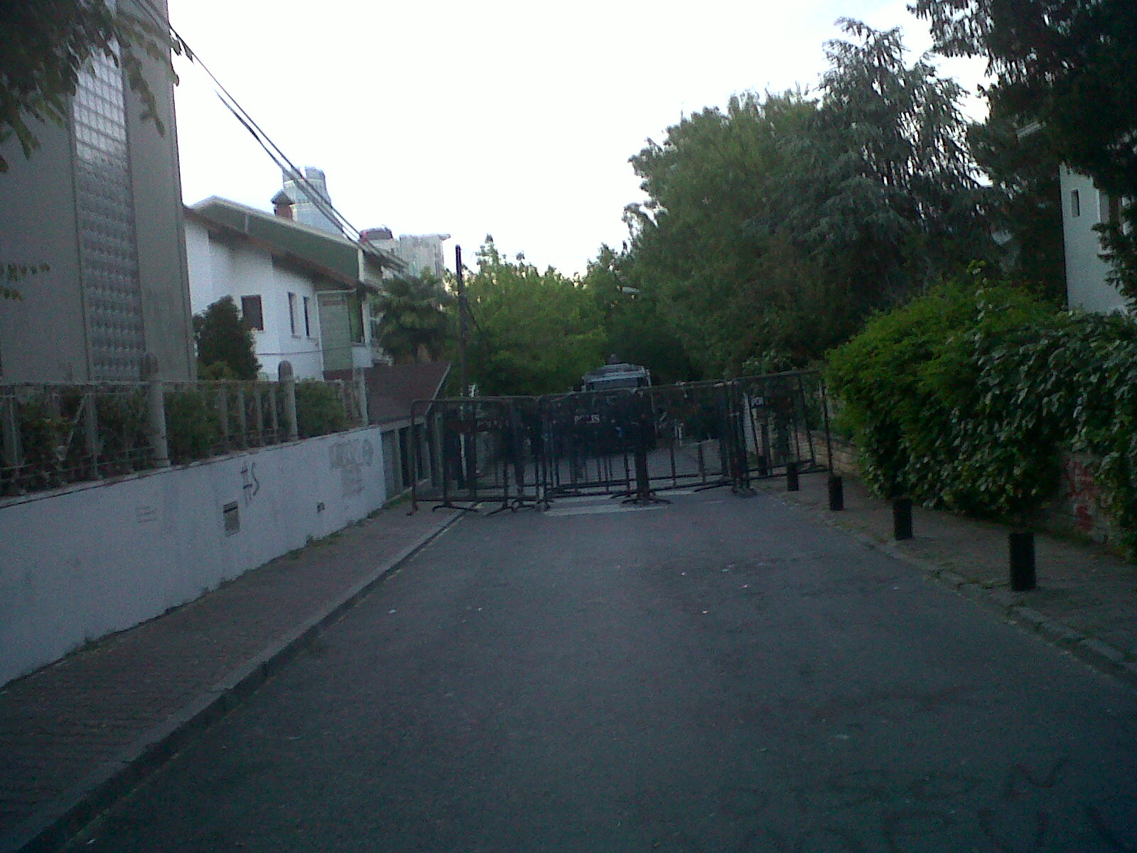 İstanbul, Levent, Lale Sokak - Soma Mining Company protest 2